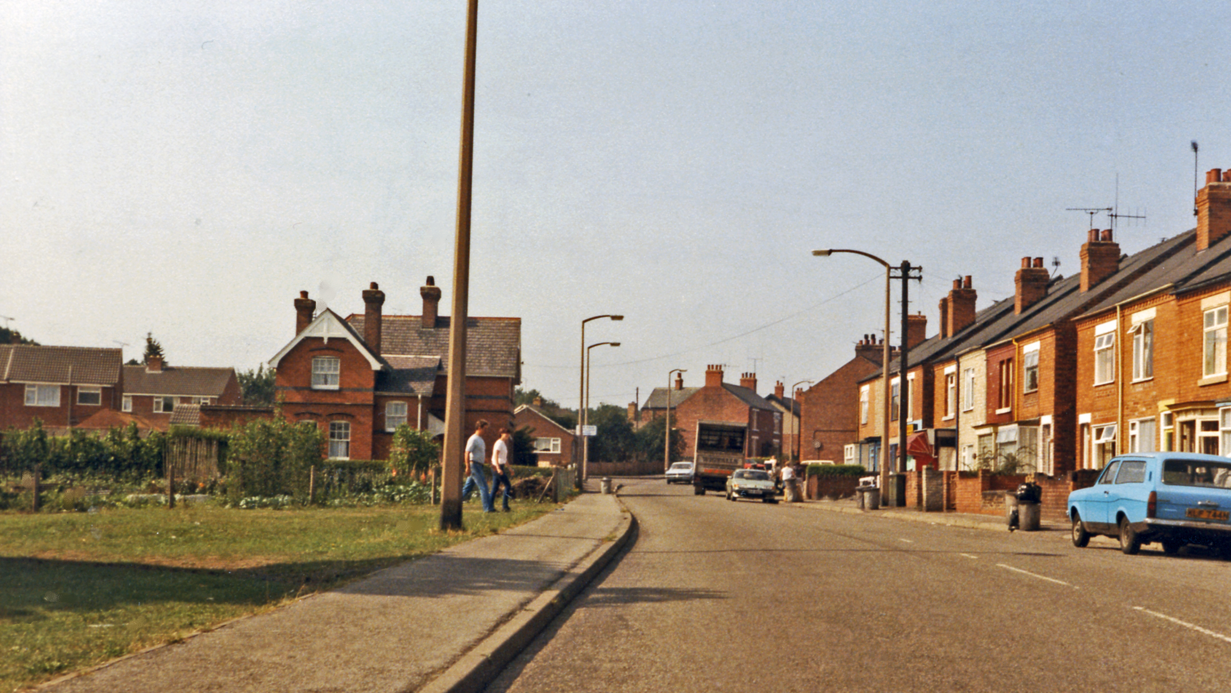 Site of Cresswell & Welbeck station, 1983, View along main street (A616) in Cresswell, where the ex-GC (LD&EC) Langwith Junction (to left) - Beighton Junction (to right) line crossed, until closed completely from 6/1/67, this station having lost its passenger service from 10/9/39, goods from 28/11/49. [Location may be slightly incorrect].